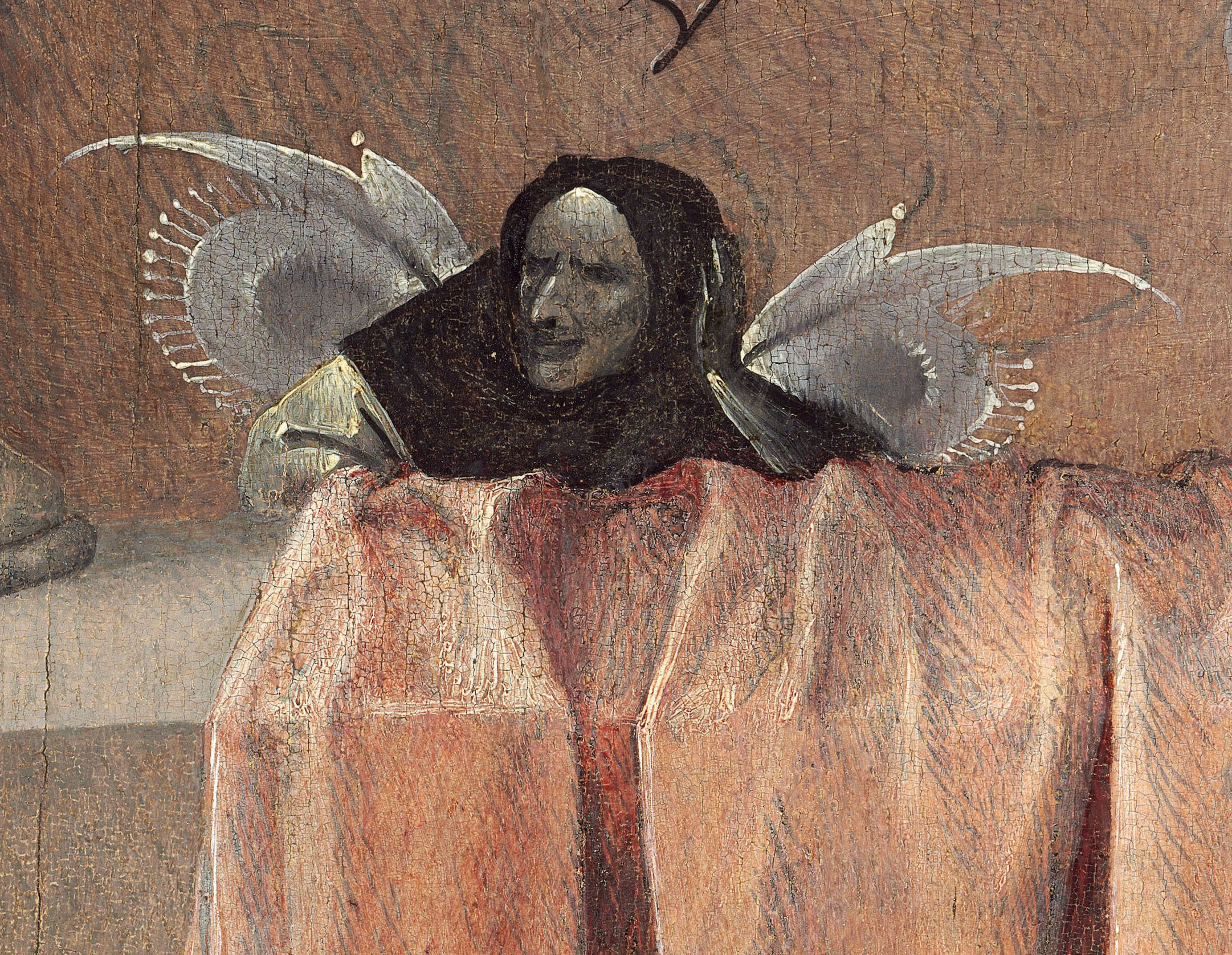 Death and the Miser